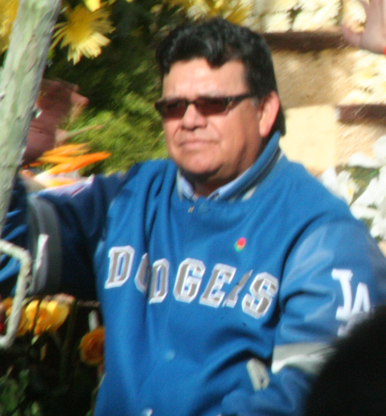 L-R: Former/current Los Angeles Dodgers players Fernando Valenzuela, in 2007. This file has been extracted from another file: Fernando Valenzuela, Nomar Garciaparra, Steve Garvey 2007.jpg